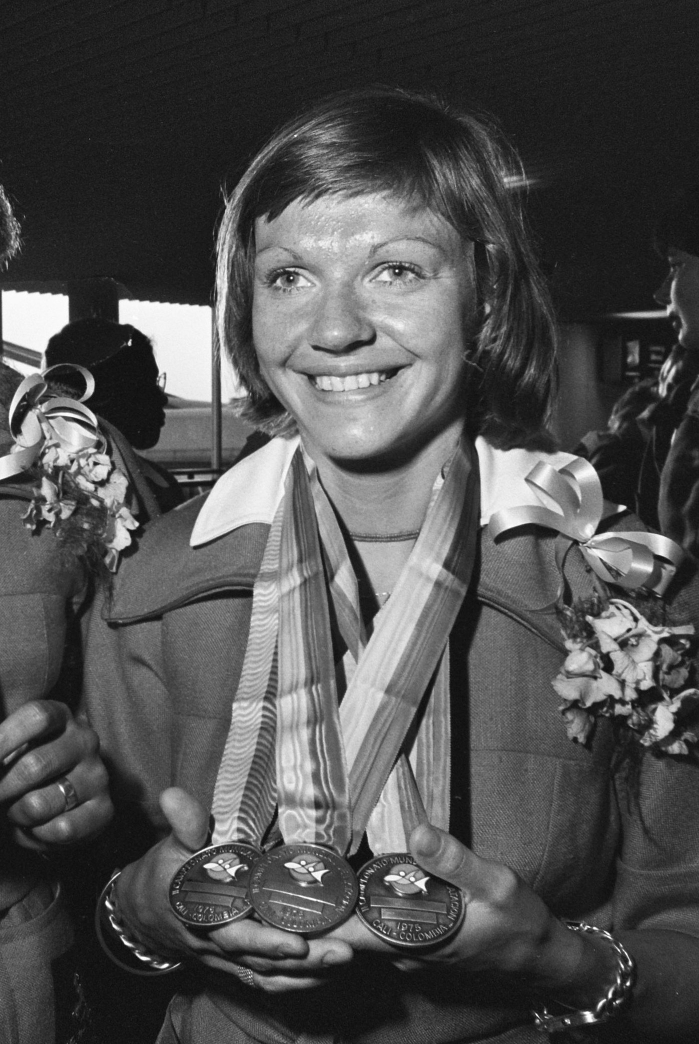 Wijda Mazereeuw returning from the world cup Cali, Colombia